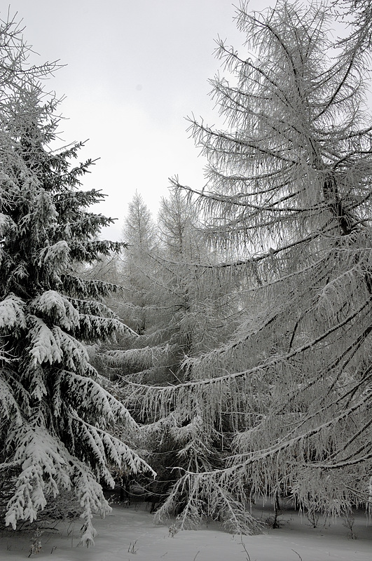 Larch forest at Khingan Nature Reserve — (Amur Oblast, far eastern Russia)